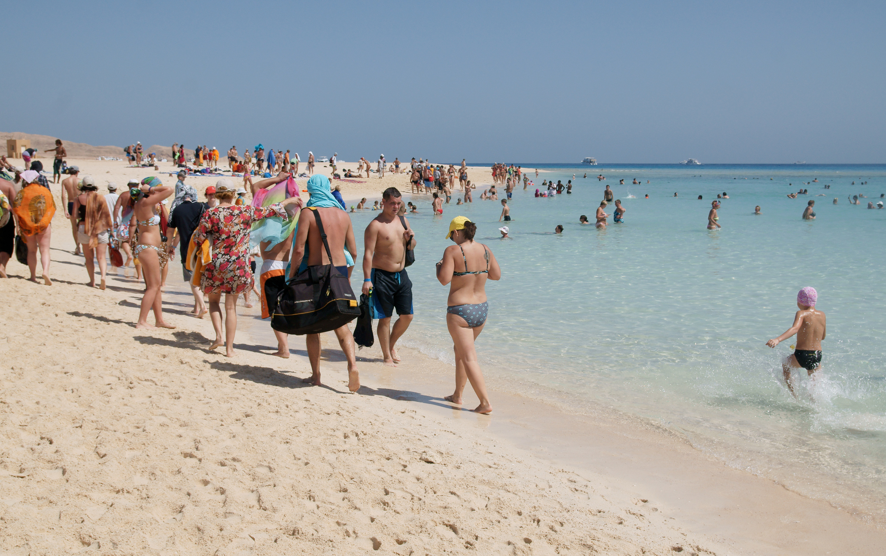 Tourist on the beach of the Paradise Island of Hurghada.